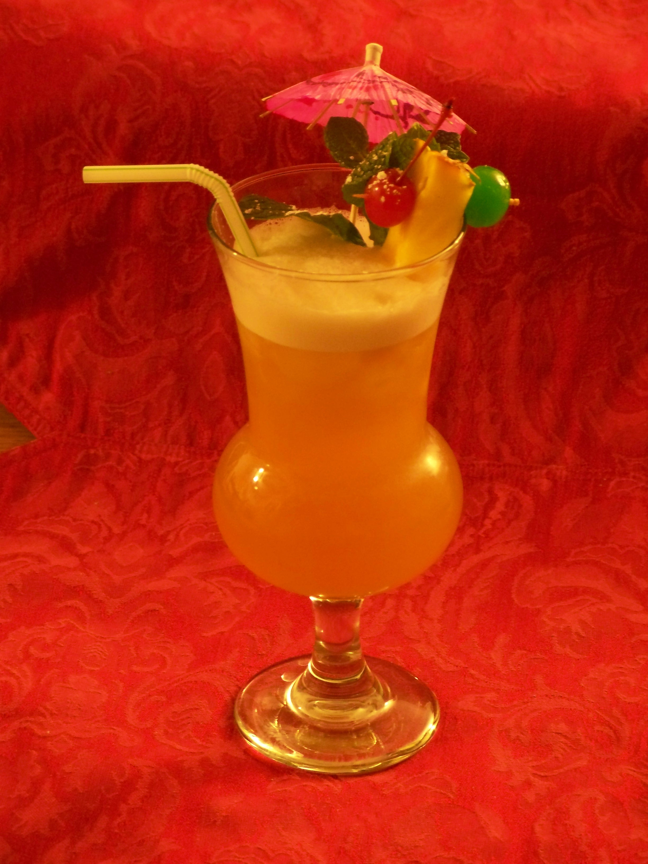 A classic Zombie cocktail. The king of all drinks in size, power, and appearance. I made it using my own recipe (which I release into the public domain): Add 1 oz dark rum, 2 oz gold rum, 1 oz light rum, 1 1/2 tsp apricot brandy, 1/2 oz lime juice, 1/2 oz simple syrup, 2 oz papaya nectar, and 1 1/2 oz pineapple juice to a cocktail shaker. Add plenty of ice, cover, and shake. Pour into a zombie glass (or hurricane glass), and top with a few teaspoons of 151-proof rum. Spike a green cherry, pineapple stick, and red cherry (in that order) on a toothpick; garnish with this, as well as a mint sprig, a straw, and (ideally) a little umbrella. Sprinkle powdered sugar over everything and serve/enjoy (with caution).